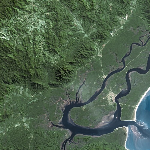 Cananéia by SPOT Satellite